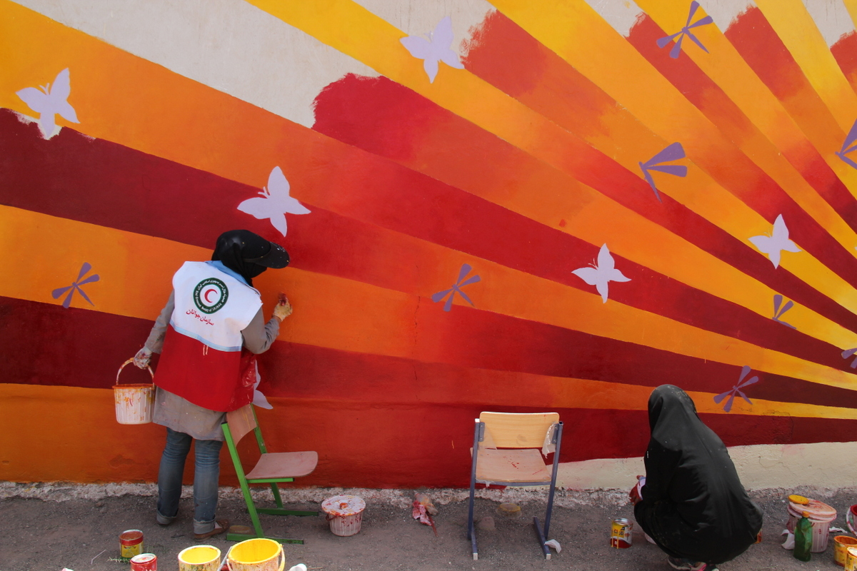 10th students Crescent camp of University of Nishapur